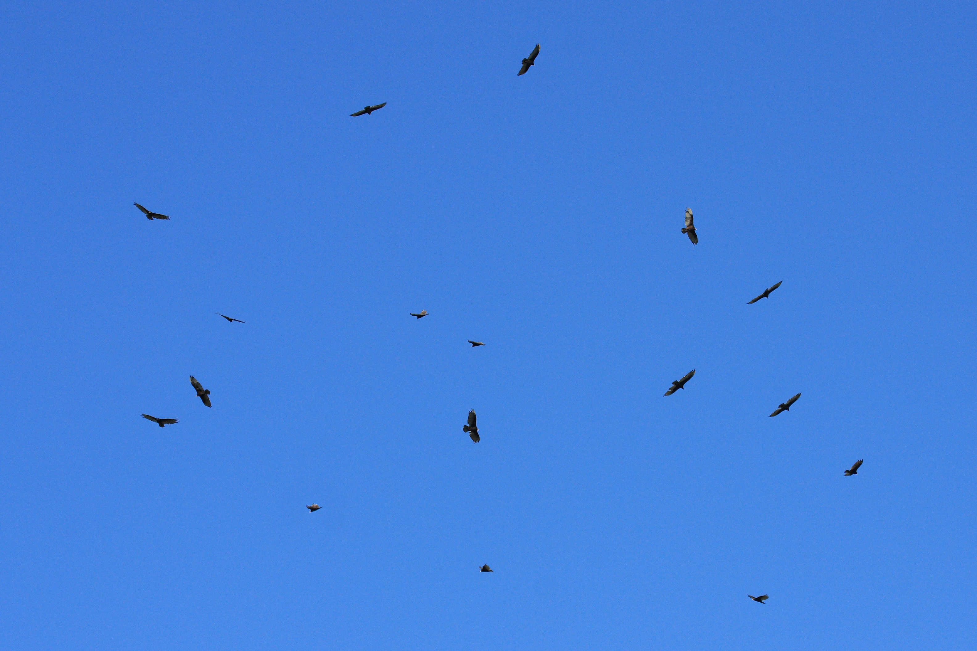 Turkey Vultures in vertical draft, Saint-André-Avellin, Quebec, Canada